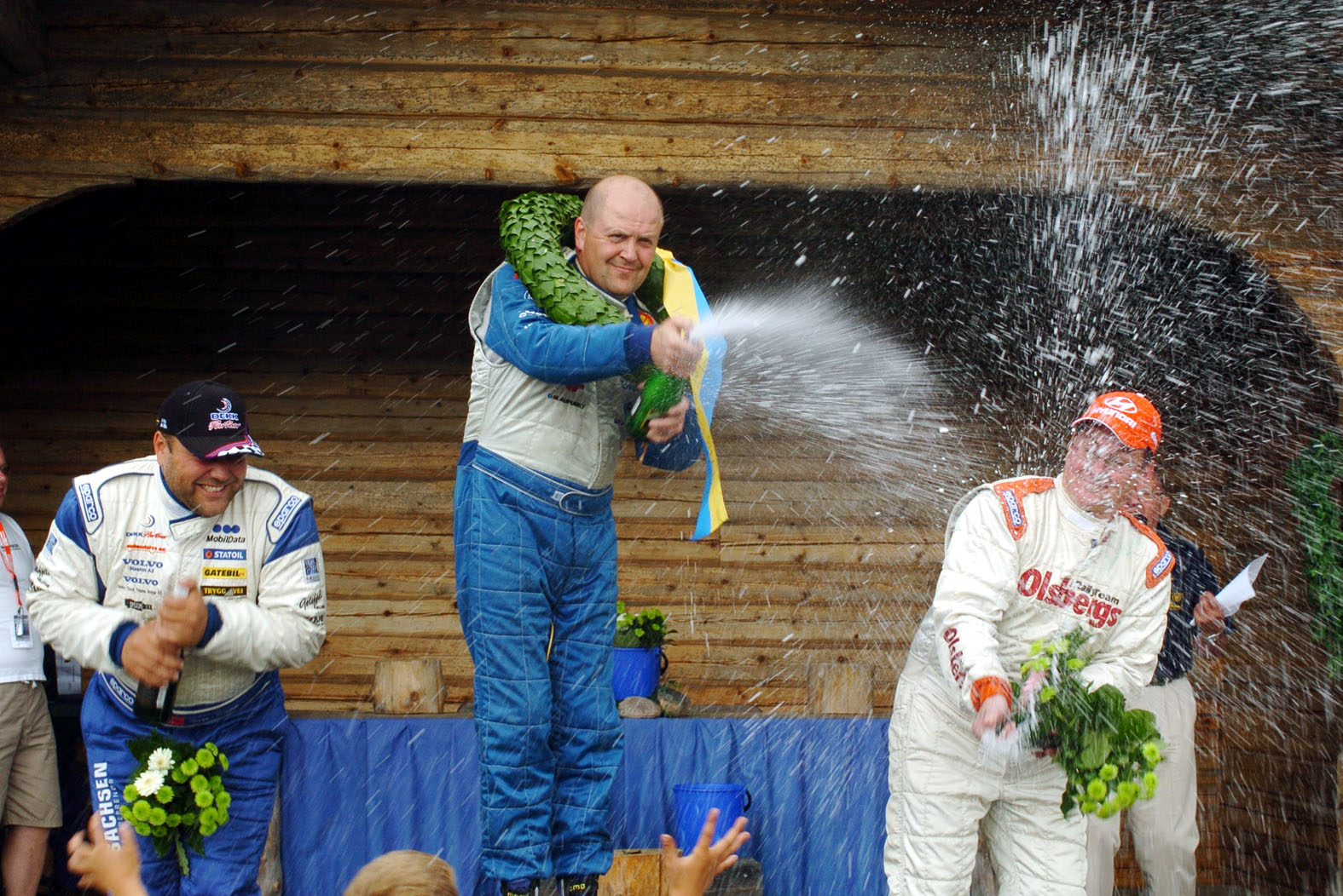 The podium after the Division 1 A-Finals of Round 5 of the FIA European Rallycross Championship at Höljes Motorstadion, Sweden. From left to right: Sverre Isachsen (2nd), Lasse Larsson (1st) and Thomas Rådström (3rd).